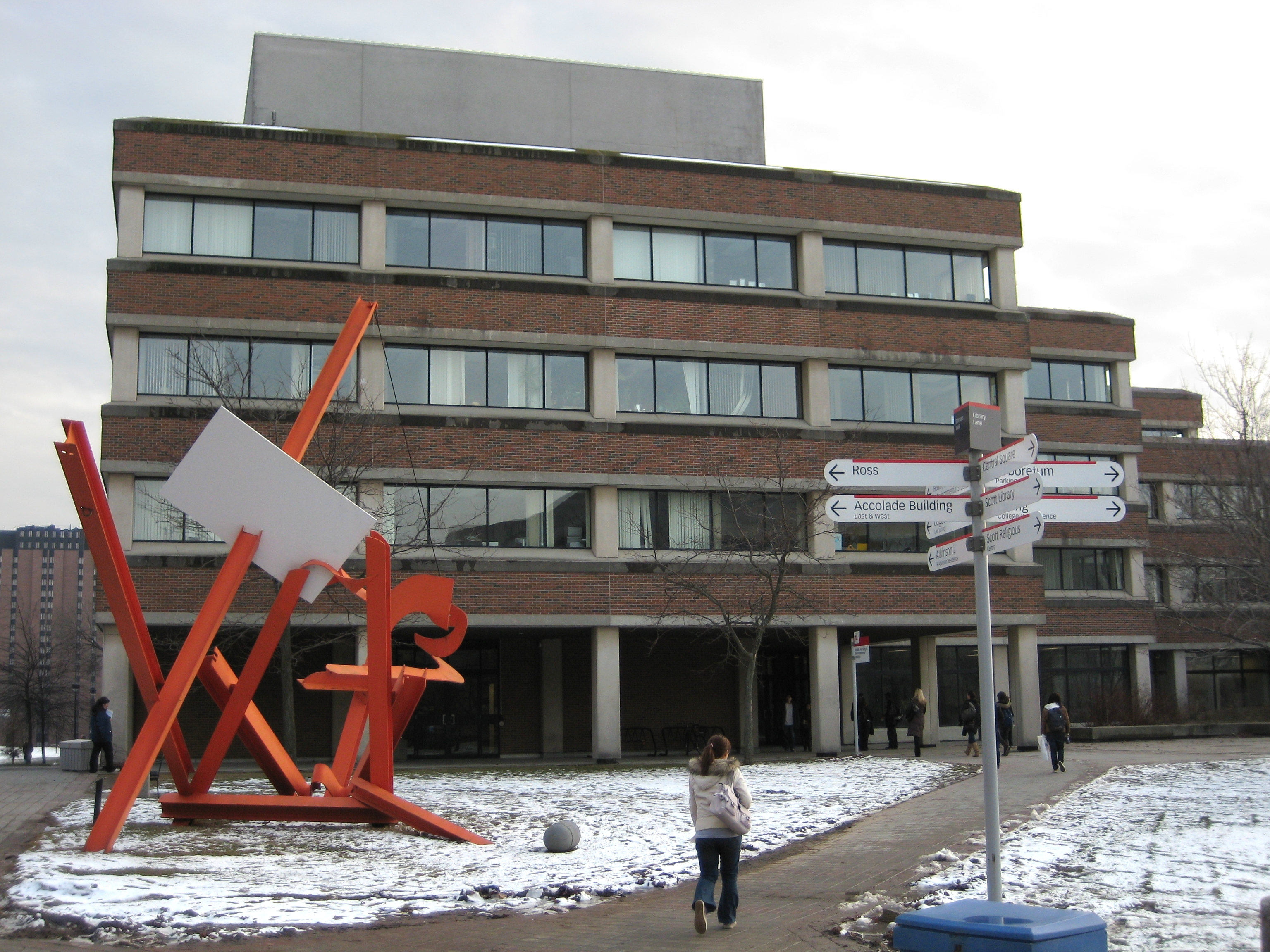 Sticky Wicket (1978) by Mark di Suvero at Health, Nursing and Environmental Studies Building, York University